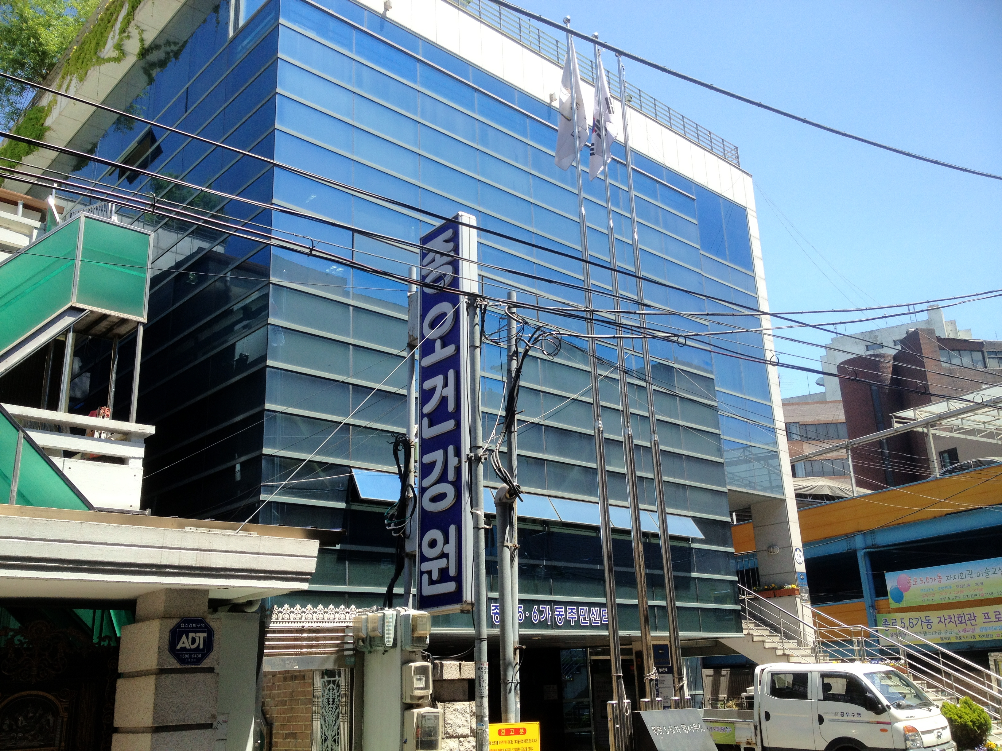 Jongno 5.6-ga-dong Comunity Service Center(Jongno-gu)